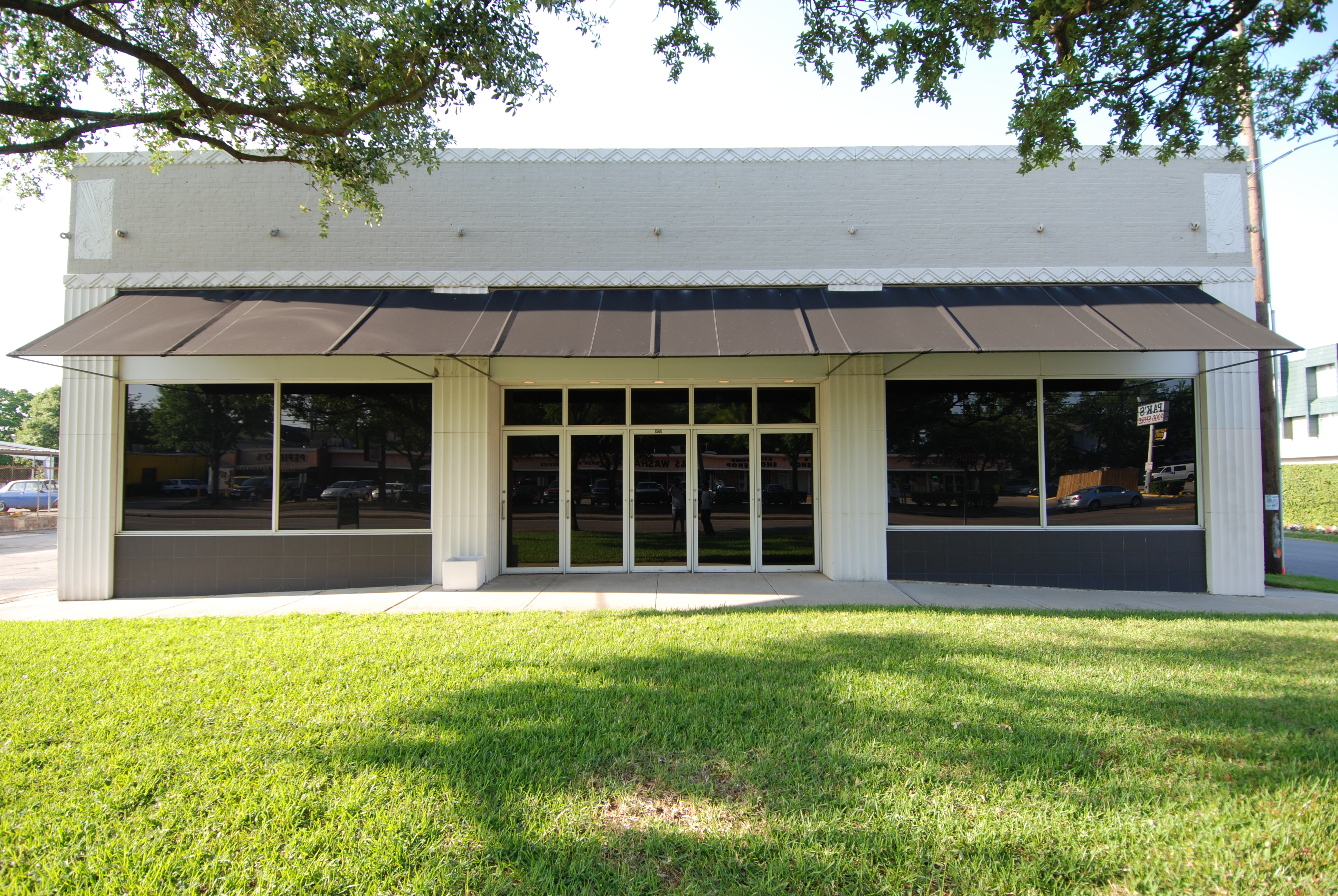 Richmond Hall Menil Collection in Houston.